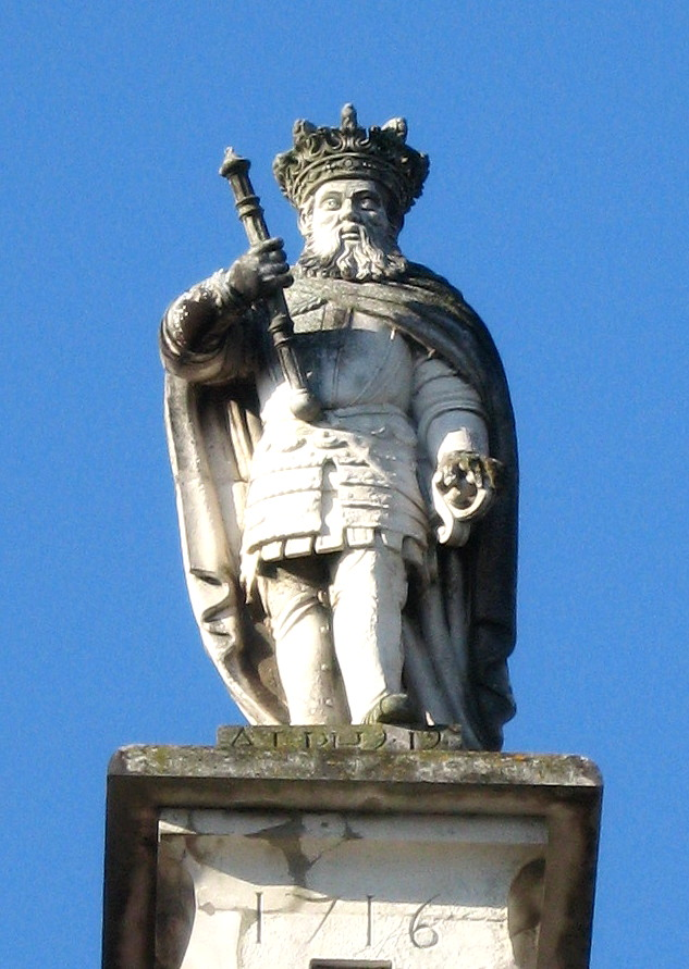 Alcobaçça, Portugal, Mosterio de Alcobaça, statue of Afonso Henriques, first King of Portugal, on the top of the façade of the Dormitório/Sald dos Monges of the monastery